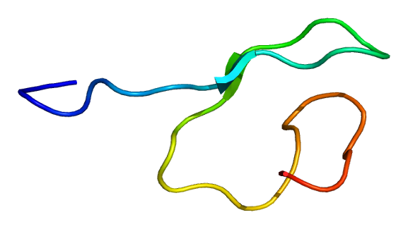 Structure of the NUP153 protein. Based on PyMOL rendering of PDB 2gqe.